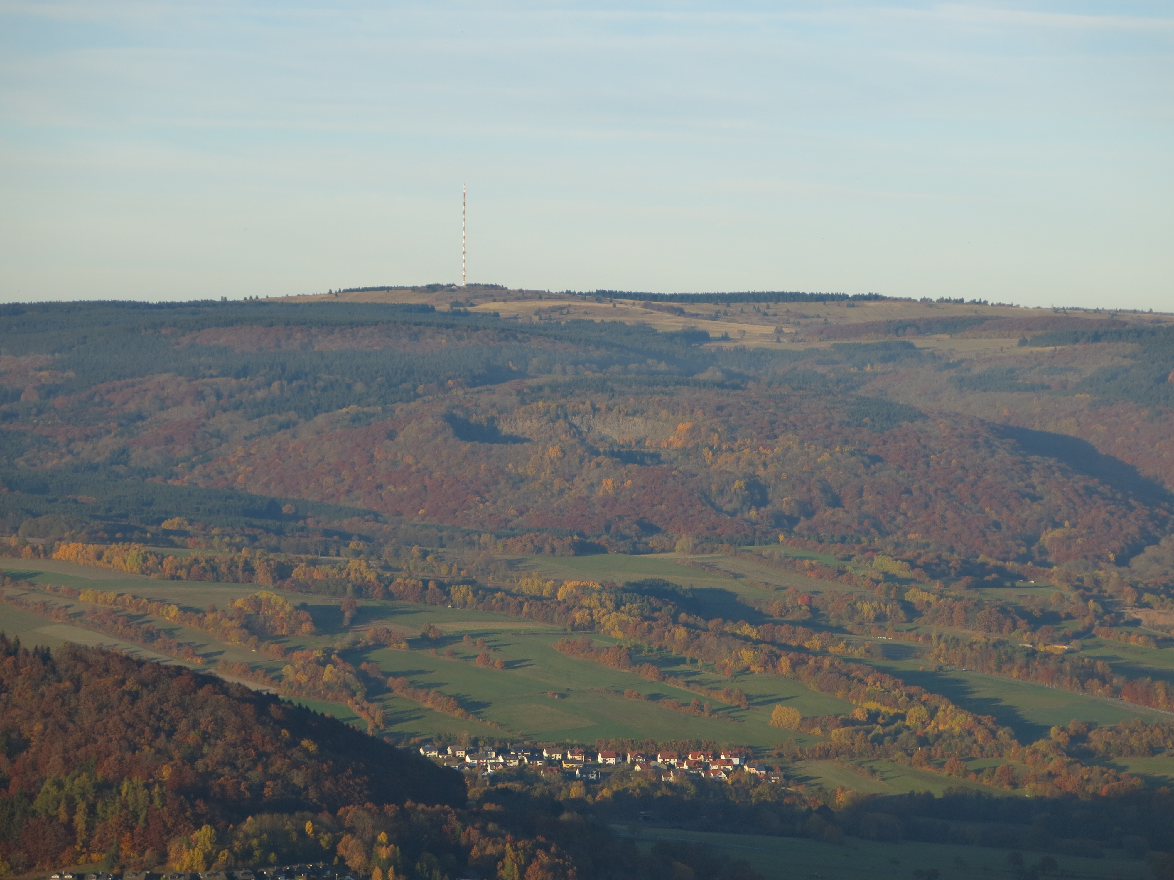 Heidelstein, seen from Kreuzberg